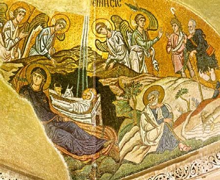 Birth of Christ, mosaic in Daphni monastery